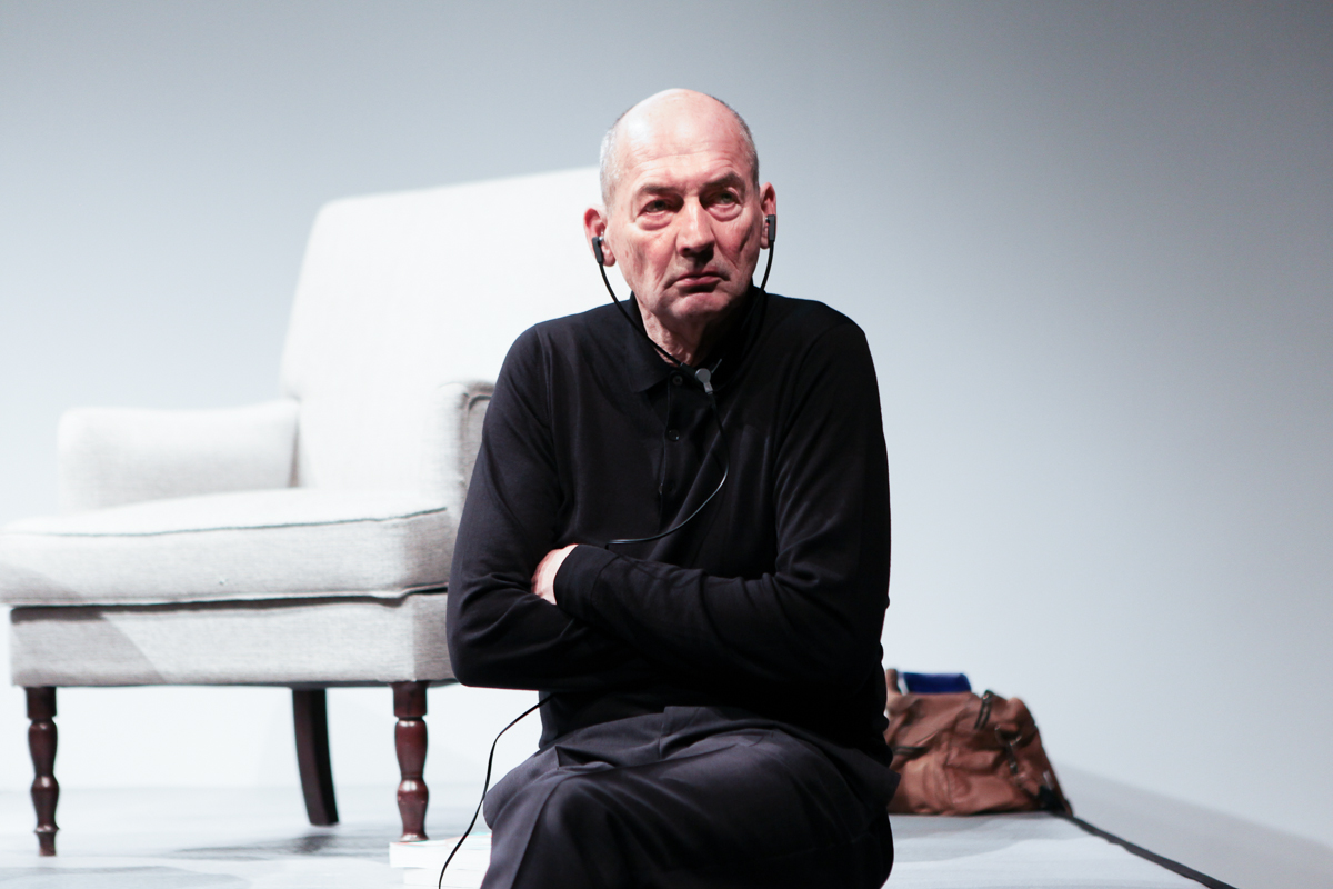 Presentation of Rem Koolhaas's book "Delirious New York" in Garage Center for Contemporary Culture